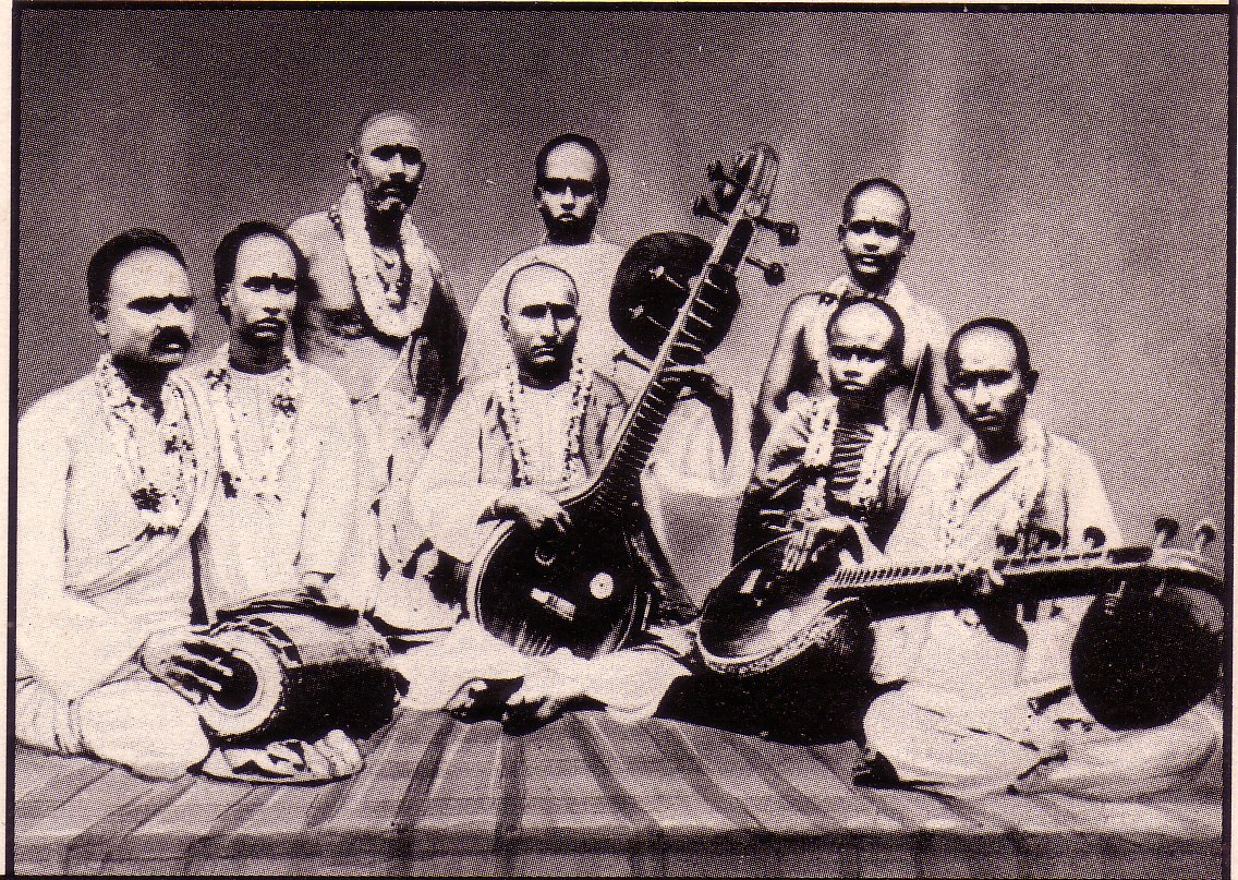 Karaikudi Vina Brothers